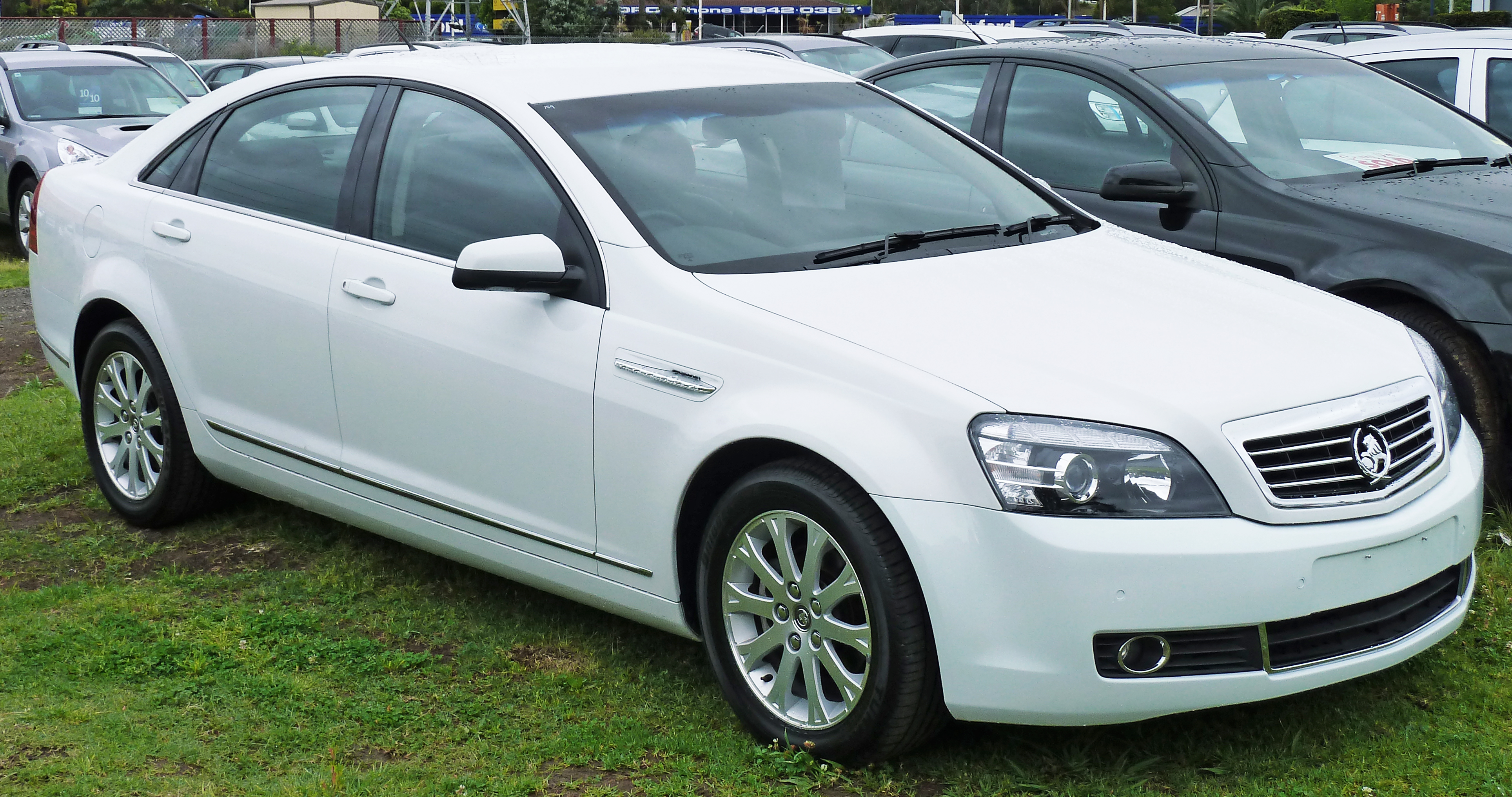 2006–2009 Holden Statesman (WM) sedan. Photographed at Suttons Holden, Chullora, New South Wales, Australia.